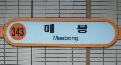 Maebong Station